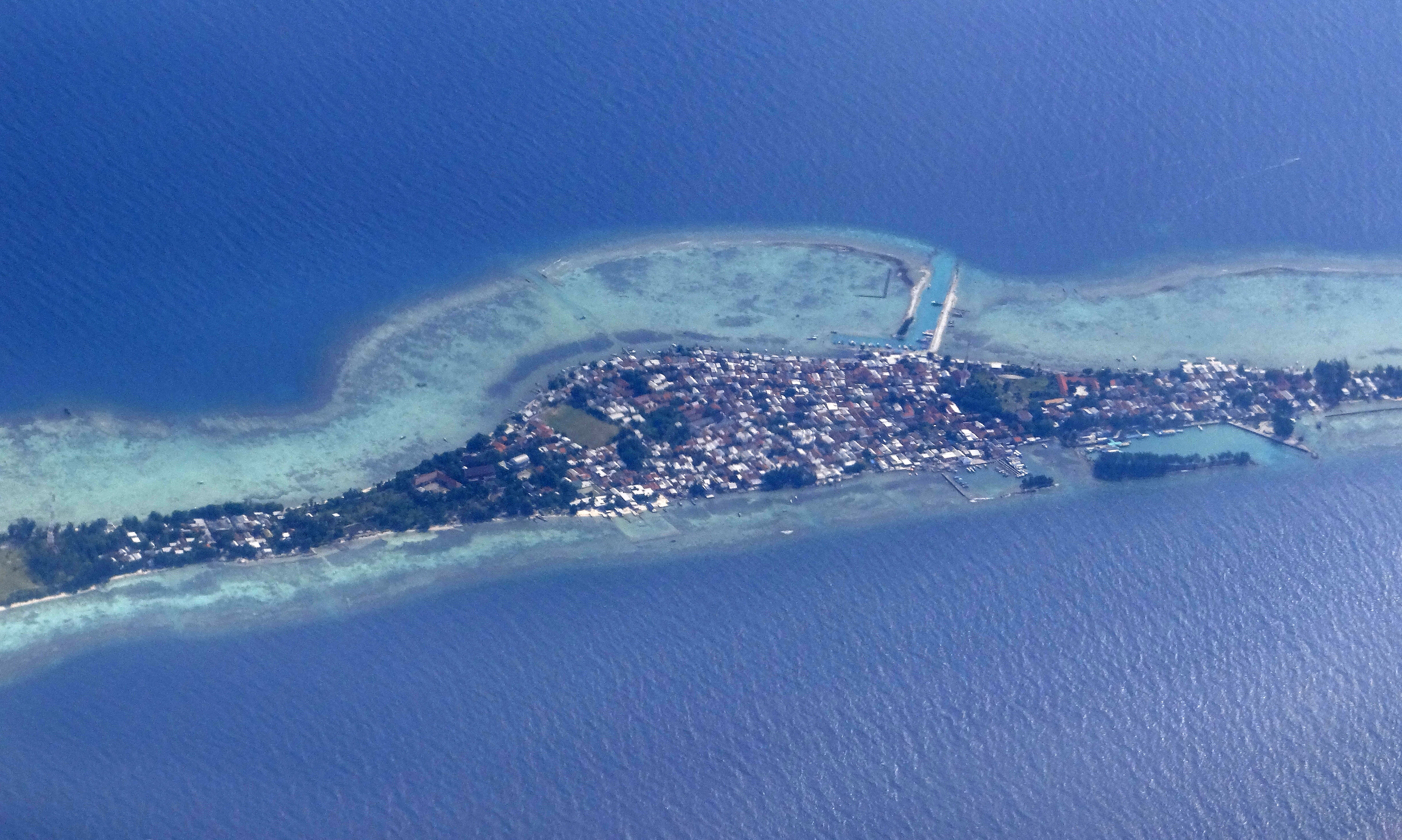 The core settlement in Tidung Kecil Island, one of the islands of the Indonesian Thousand Islands.